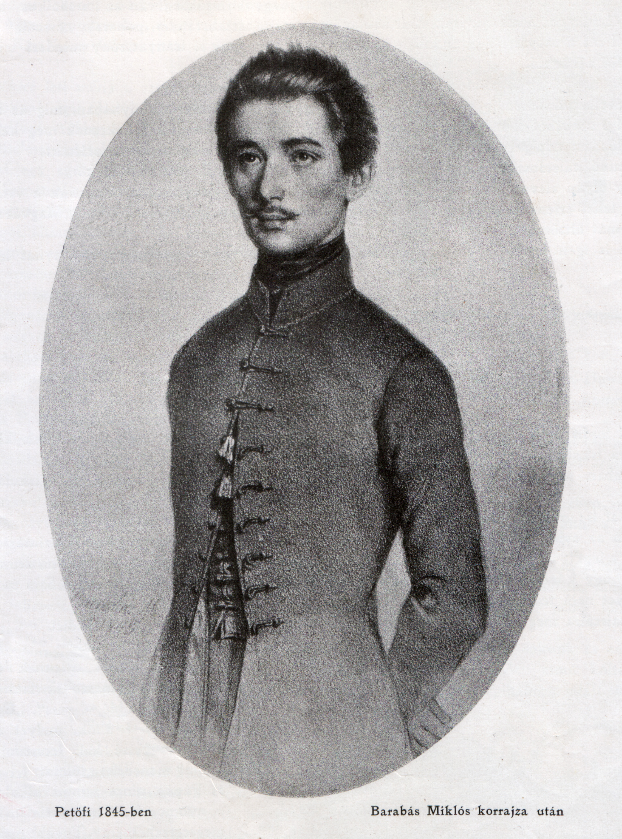 Sándor Petőfi Hungarian poets in 1845 drawing by Miklós Barabás